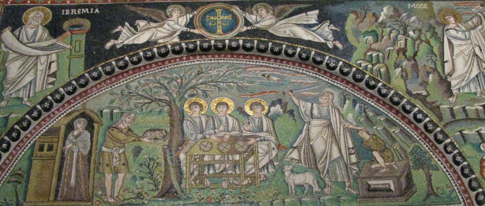 Abraham entertaining three angels; sacrifice of Isaac. Mosaic in basilica of San Vitale in Ravenna.